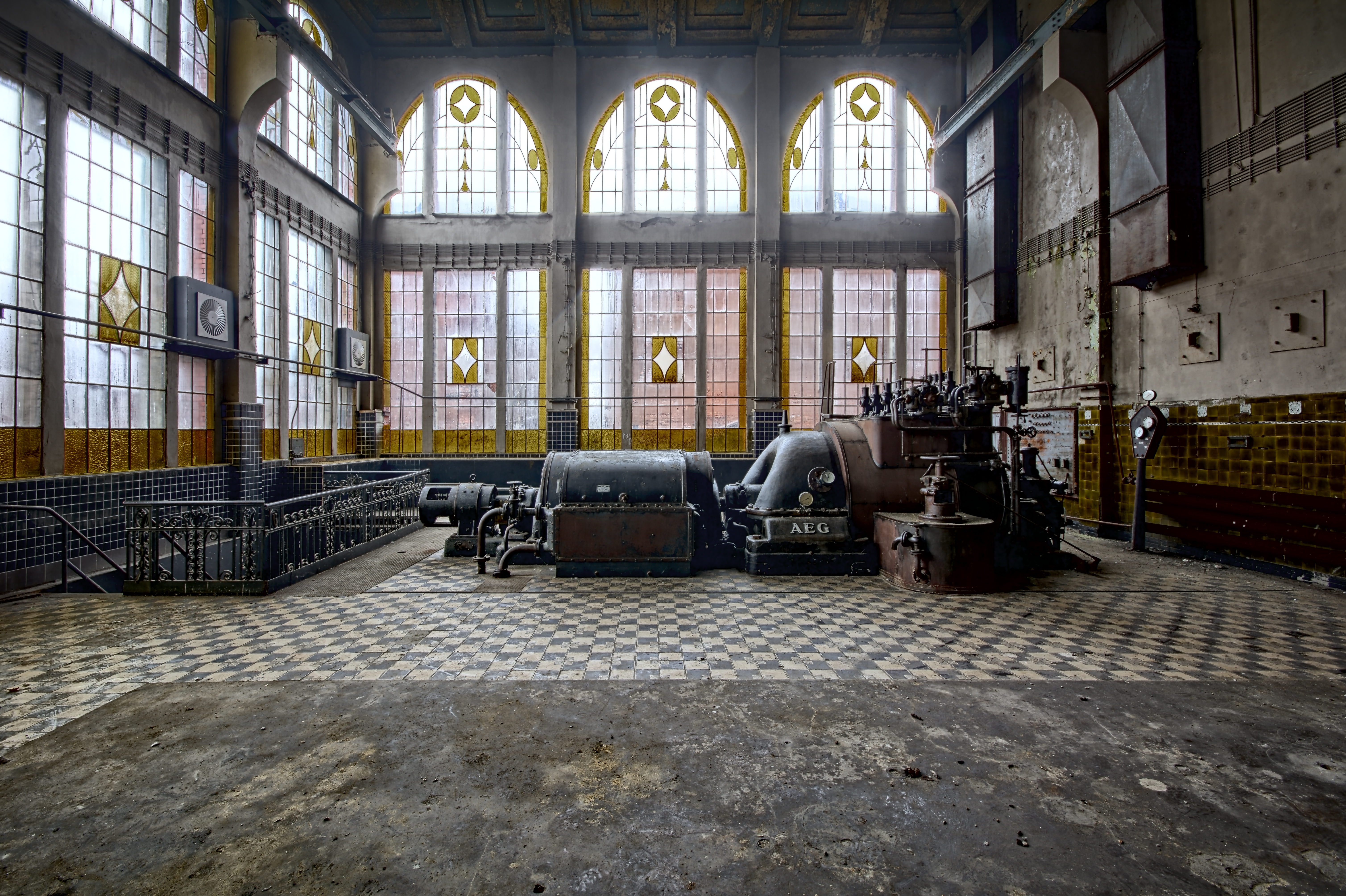 Power station in Scheibler's and Grohman's factory in Łódź